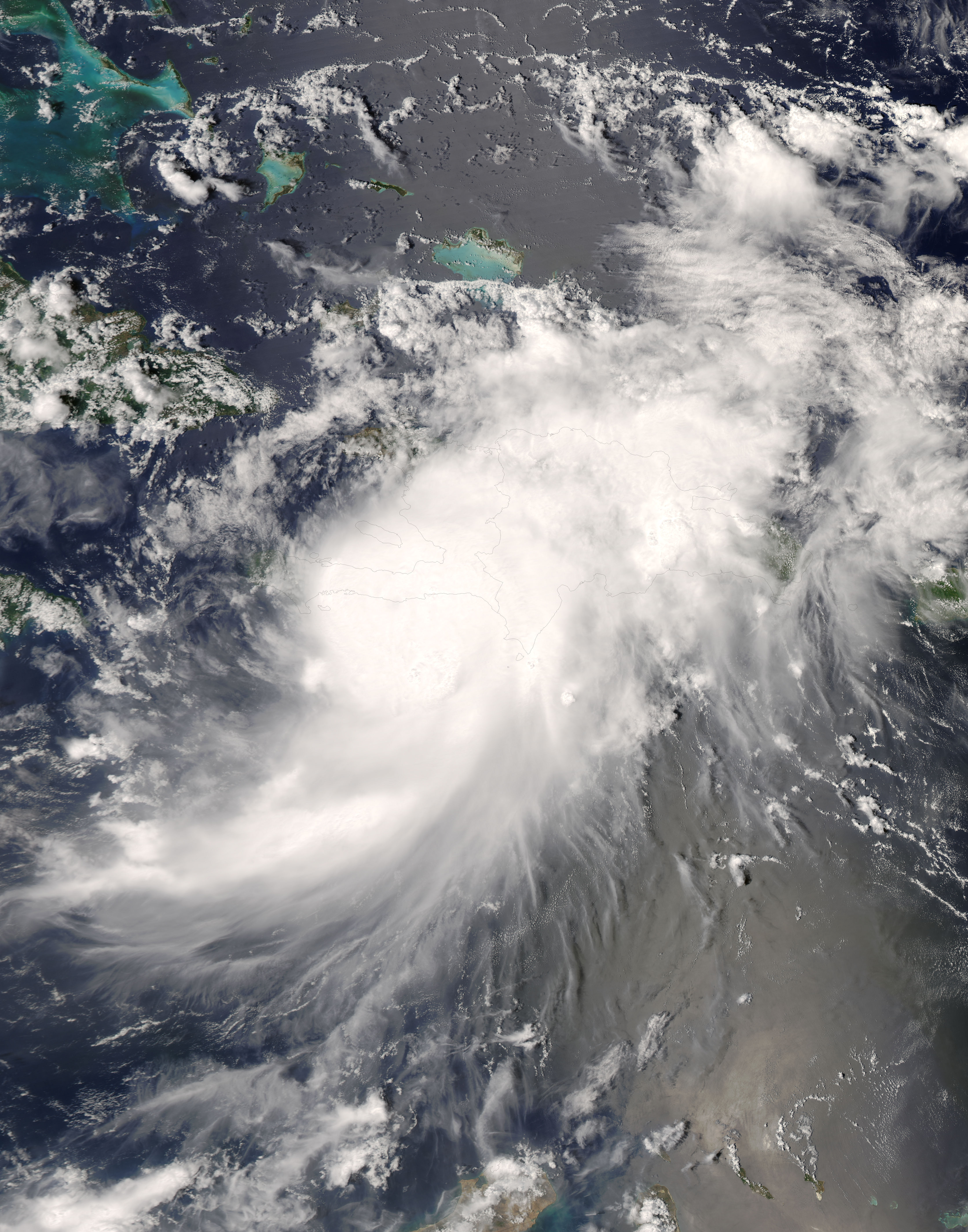 Hurricane Gustav over Hispaniola after first landfall on August 26, 2008